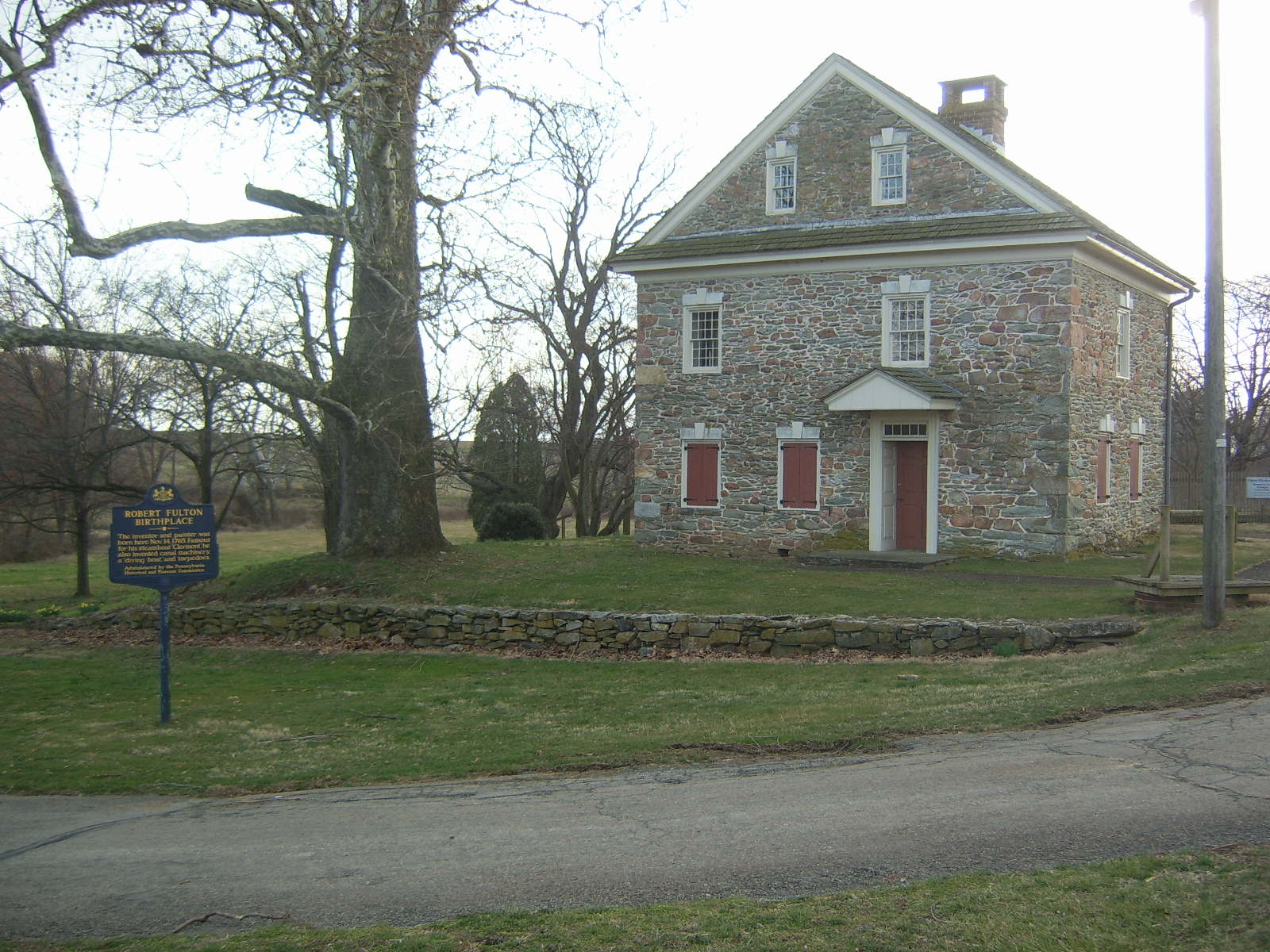 Robert Fulton Birthplace near Quarryville, Pennsylvania, listed on the National Register of Historic Places.